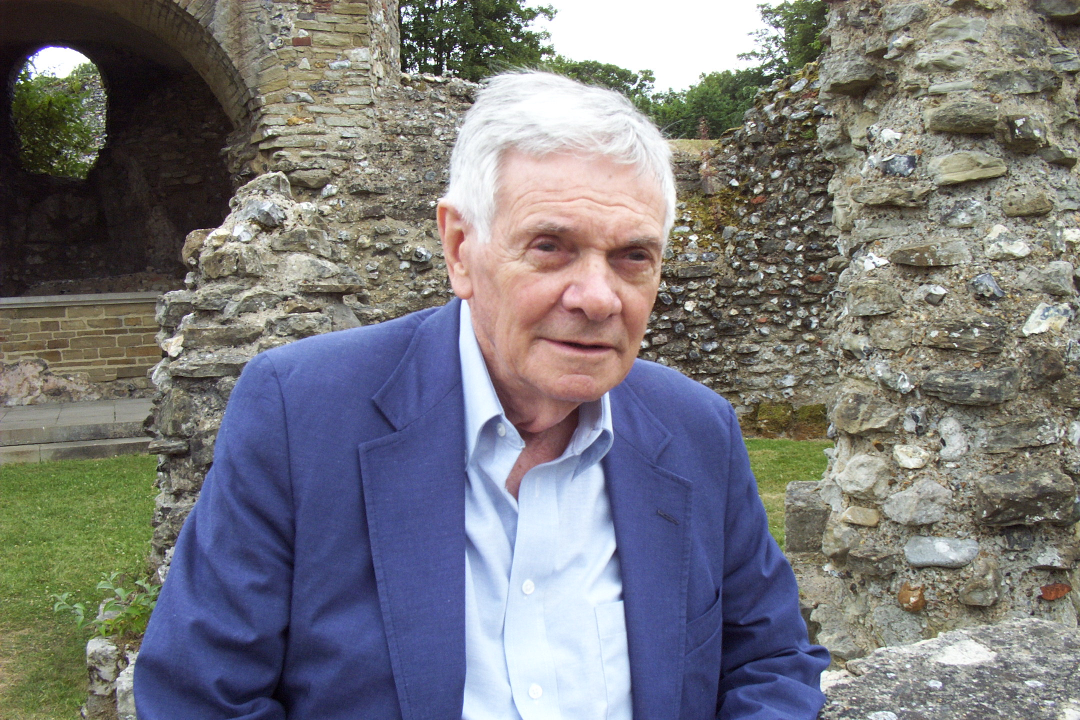 Bernard Mayes